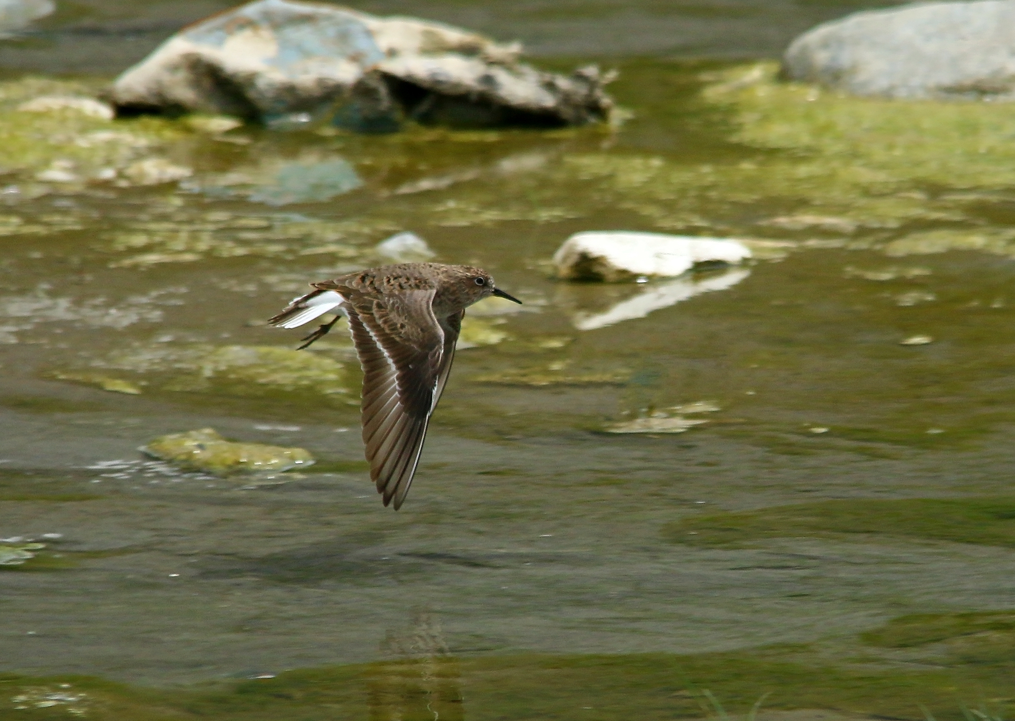 Temminck's Stint Calidris temminckii at Danyore, Gilgit, Gilgit-Baltistan, Pakistan with Canon EOS 70D